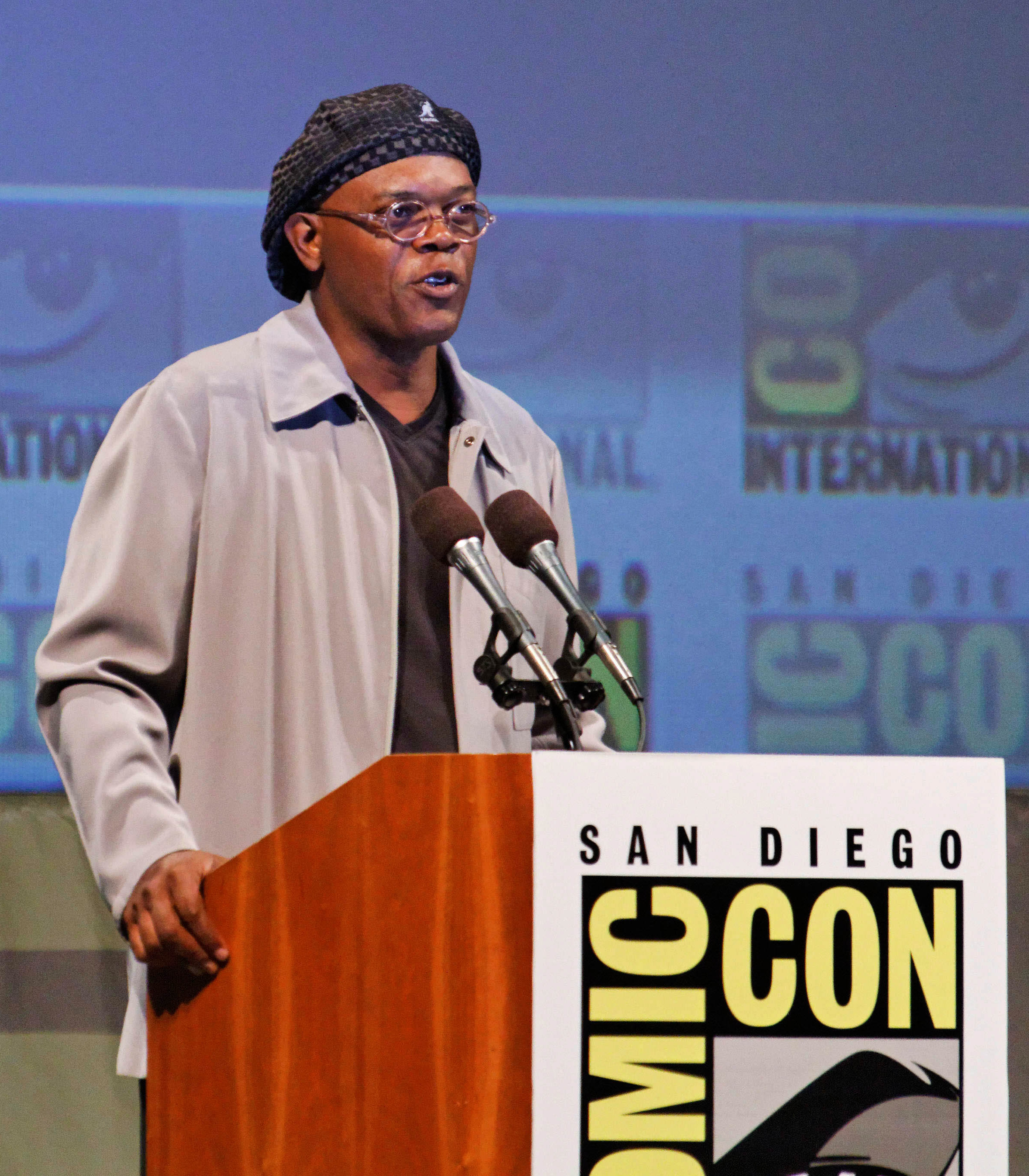 Samuel L Jackson at Comic Con 2010. July 24, 2010 in The Metropolitan Project, San Diego, CA, US